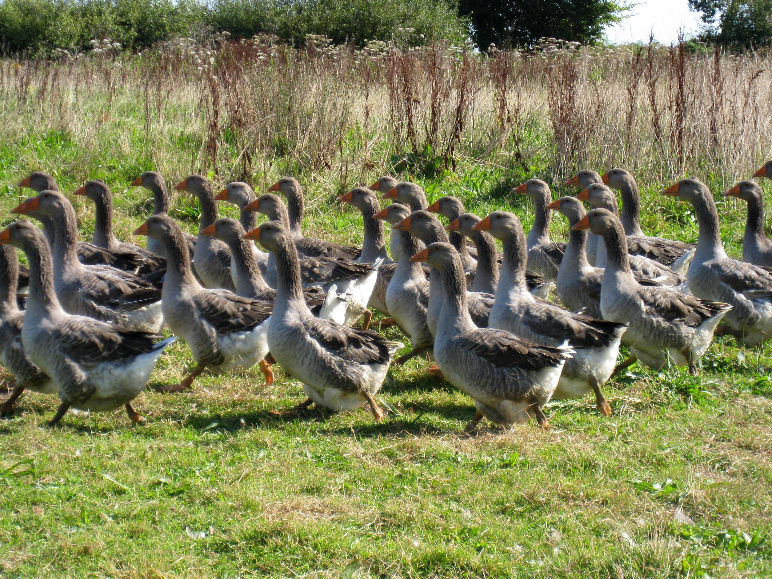 Toulouse Geese in Normandy